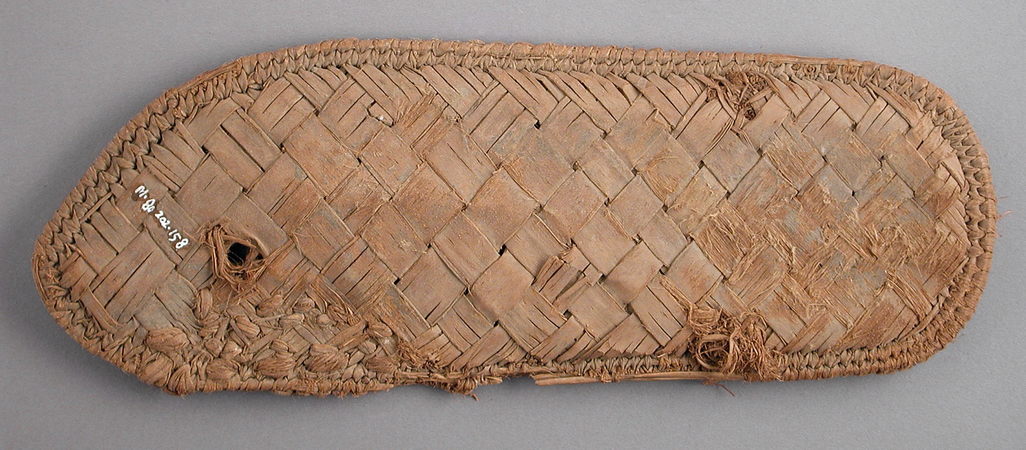 Egypt, probably New Kingdom (1569 - 1081 BCE) Costumes; Accessories Papyrus Length: 11 1/4 in. (28.5 cm); Width: 4 3/16 in. (10.7 cm) Gift of Jerome F. Snyder (M.80.202.158) Egyptian Art